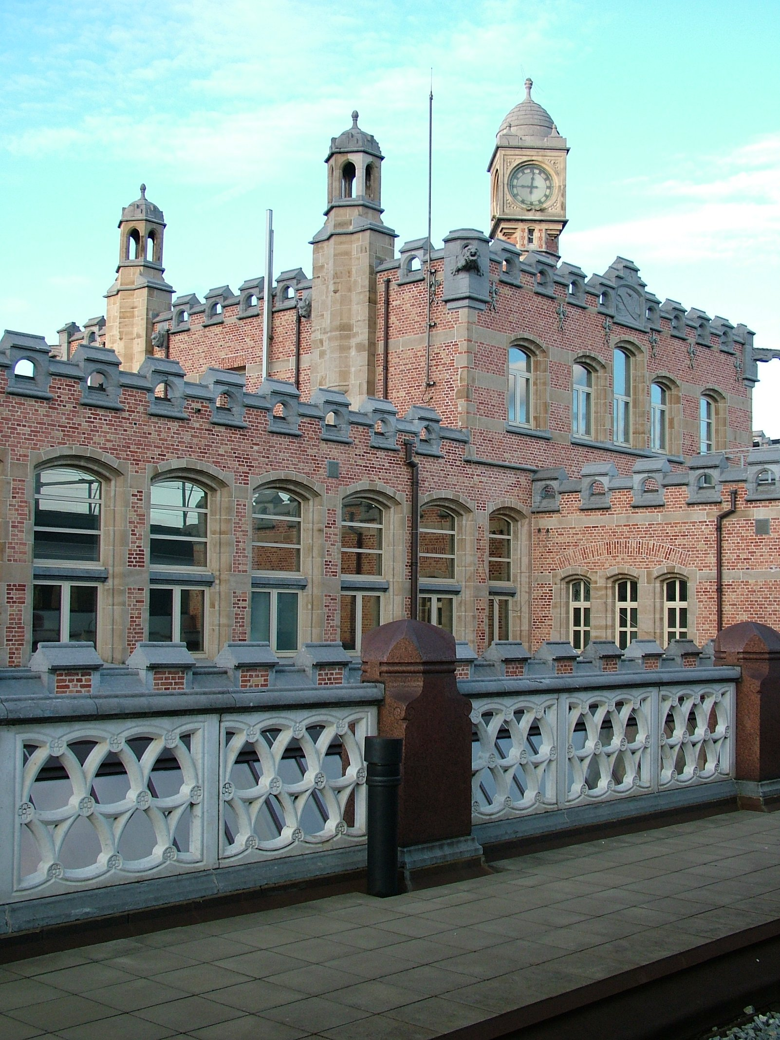 Gent-Sint-Pieters station building, seen from platform 1